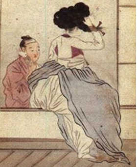 Scanned from a work by Shin Yun-bok.